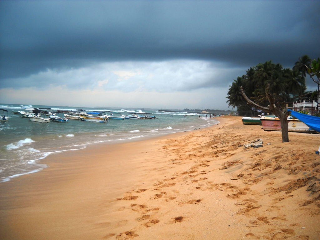 Hikkaduwa is a a popular tourist destination in the south coast of Sri Lanka, located in the Southern Province, about 17 km north-west of Galle.